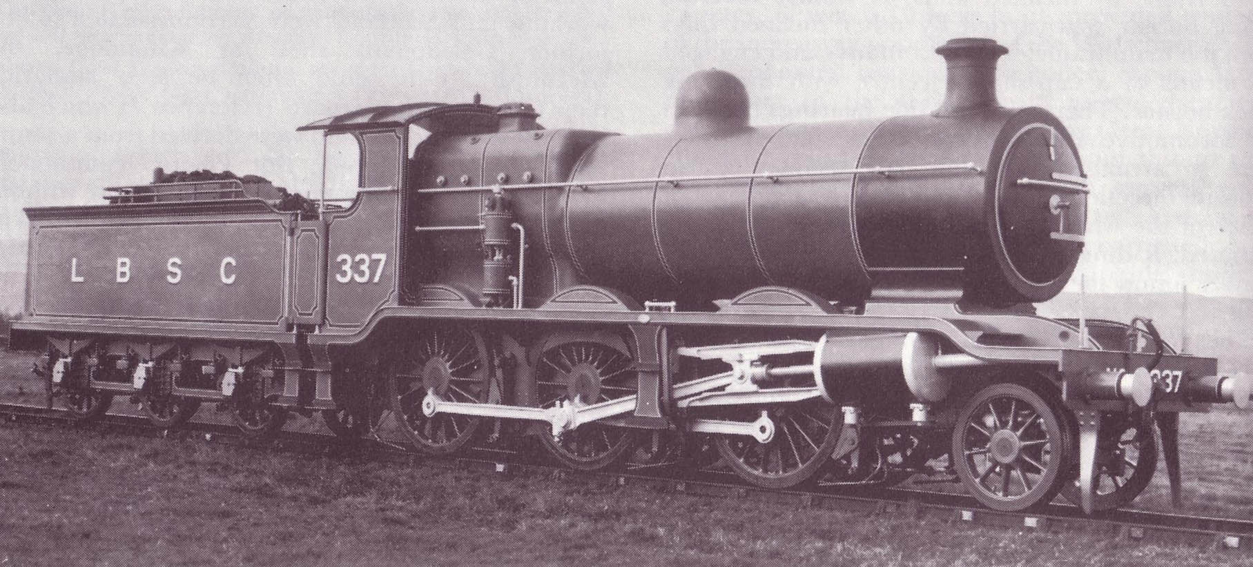 Official LB&SCR photograph of first K class locomotive